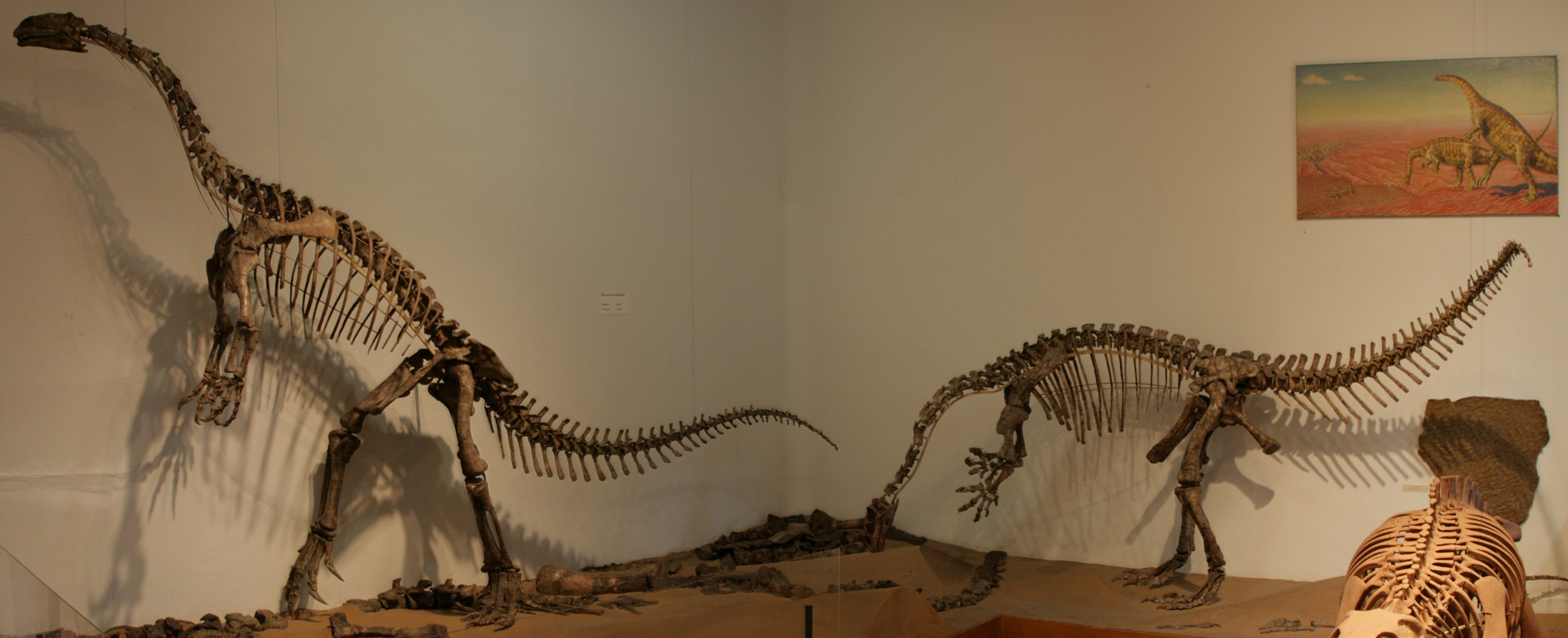 Panoramic view of Plateosaurus engelhardti skeletons "Skelett 1" (left) and "Skelett 2" (right, collection number GPIT/RE/7288) from Trossingen, Germany, on exhibit at the museum of the Institute for Geosciences of the Eberhard-Karls-University Tübingen, Germany. "Skelett 2" is a nearly complete individual, "Skelett 1" is a composite from 2 individuals. Mounts created under the direction of Friedrich von Huene. This is a panoramic image created from several photographs, and thus has unusual visible and invisible edge distortions.